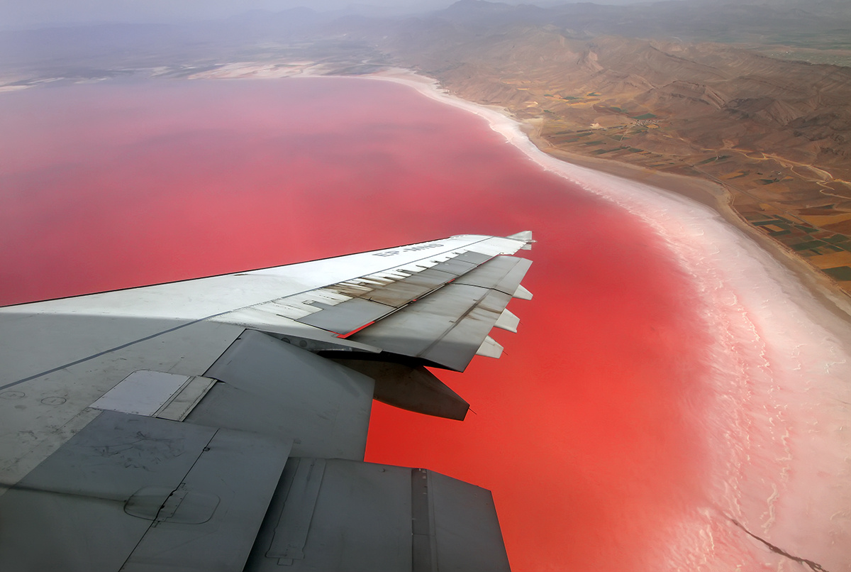 One of the scenes on most flights to Shiraz is Lake Maharloo. Southeast of Shiraz, the lake is reddish due to a high percentage of algae. Amongst the birds one will find at the lake are flamingos.